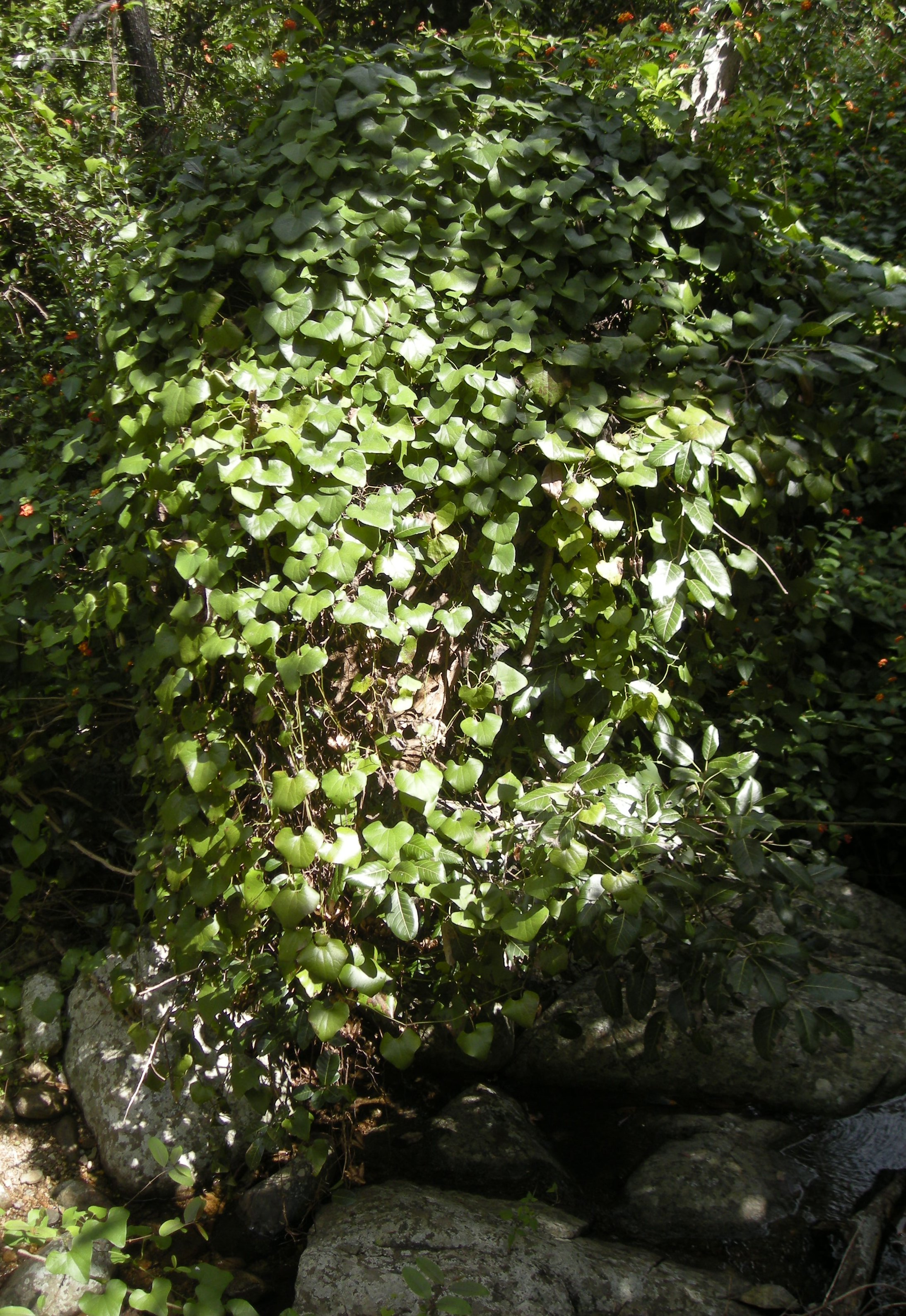 Aristolochia elegans habit